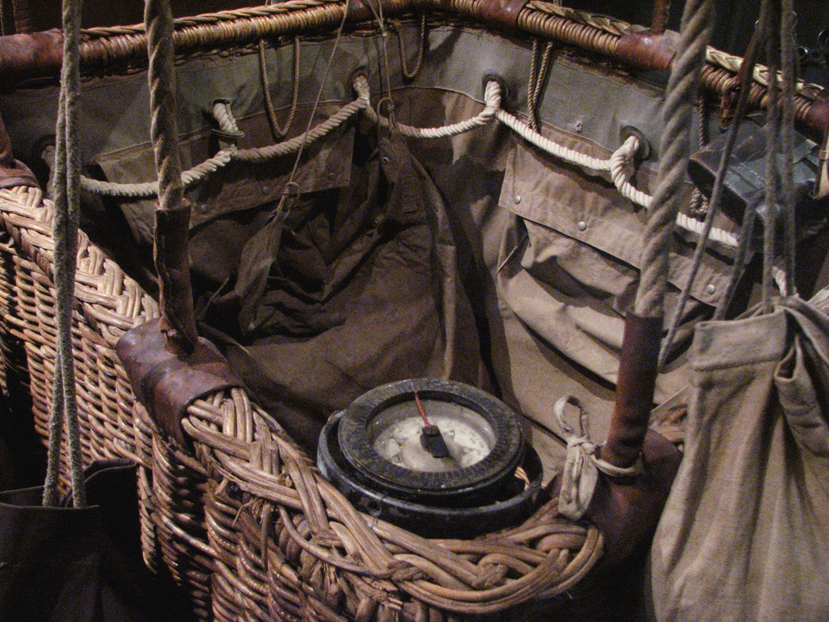 Hot air balloon basket, Technological Museum of Berlin.